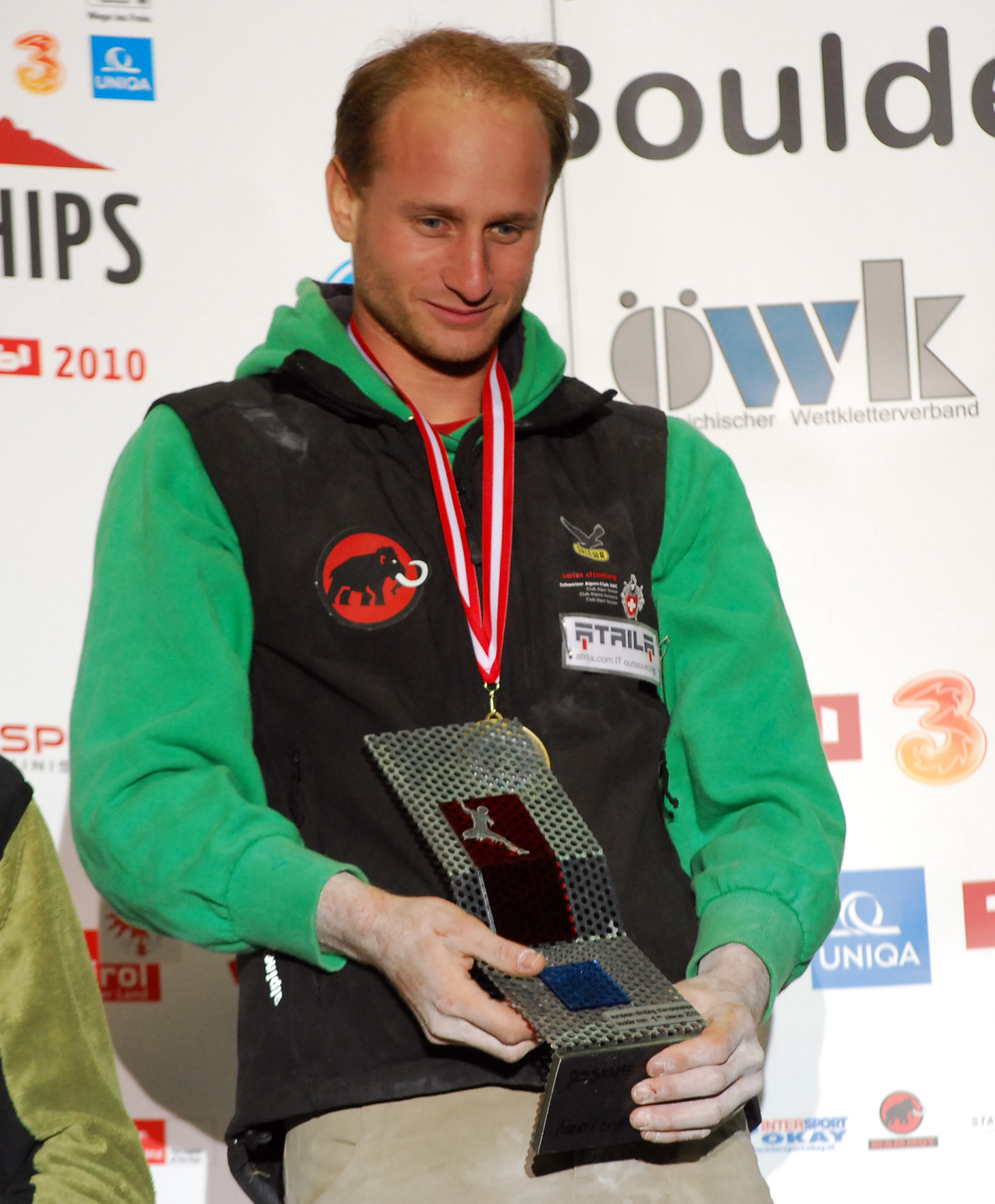 Cédric Lachat, European Champion (Boulder) 2010 Innsbruck